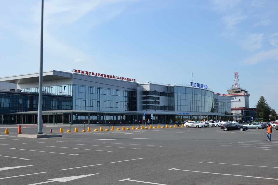 Airport roshino, Tyumen, Russia